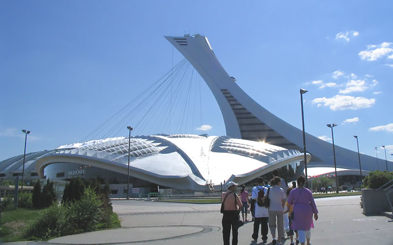 Montreal Olympic Tower and Biodome